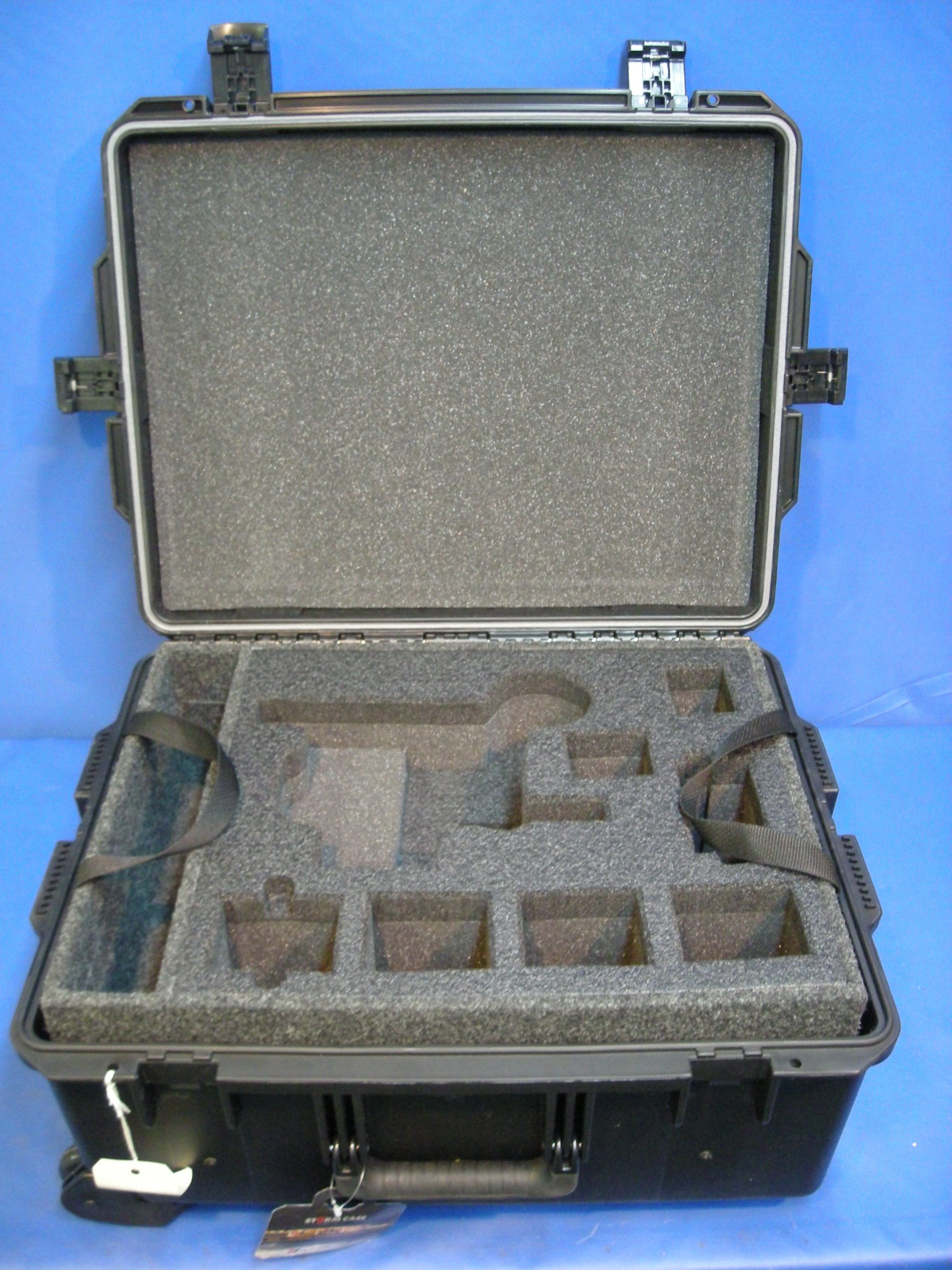 Innerspace Cases custom foam interior for Hardigg Storm plastic molded case